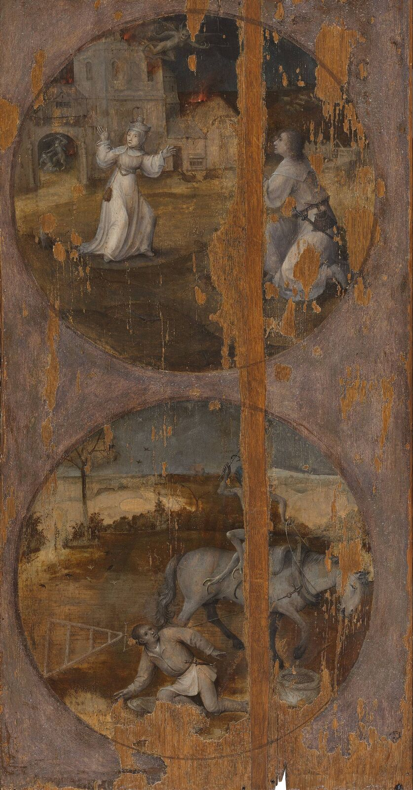 Fragment (outer left wing) of a triptych. See File:The Hell and the Flood P1.jpg for the inner left wing and File:The Hell and the Flood P4.jpg and File:The Hell and the Flood P2.jpg for the right wing.